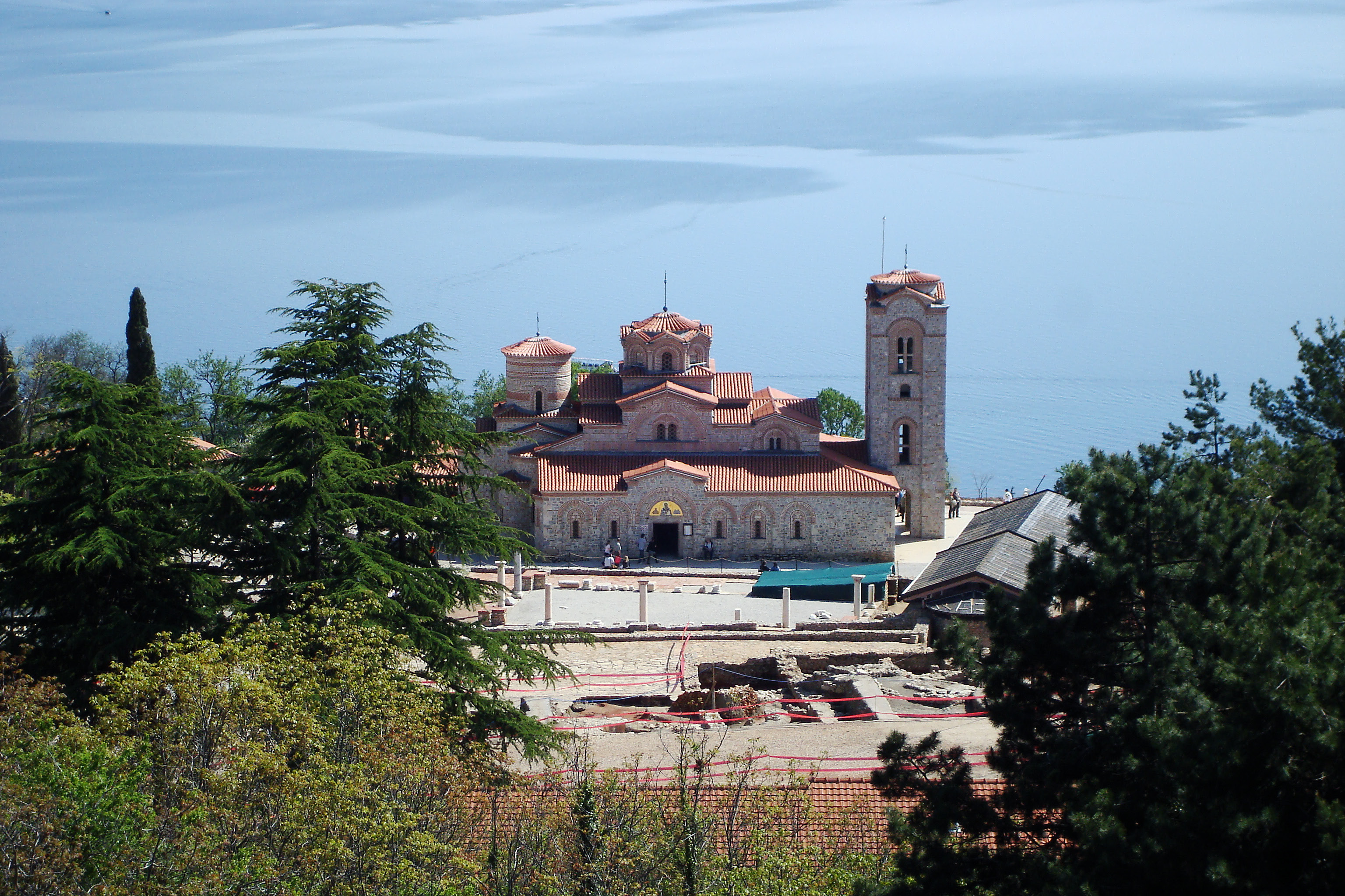 Plaošnik, Ohrid, Macedonia.